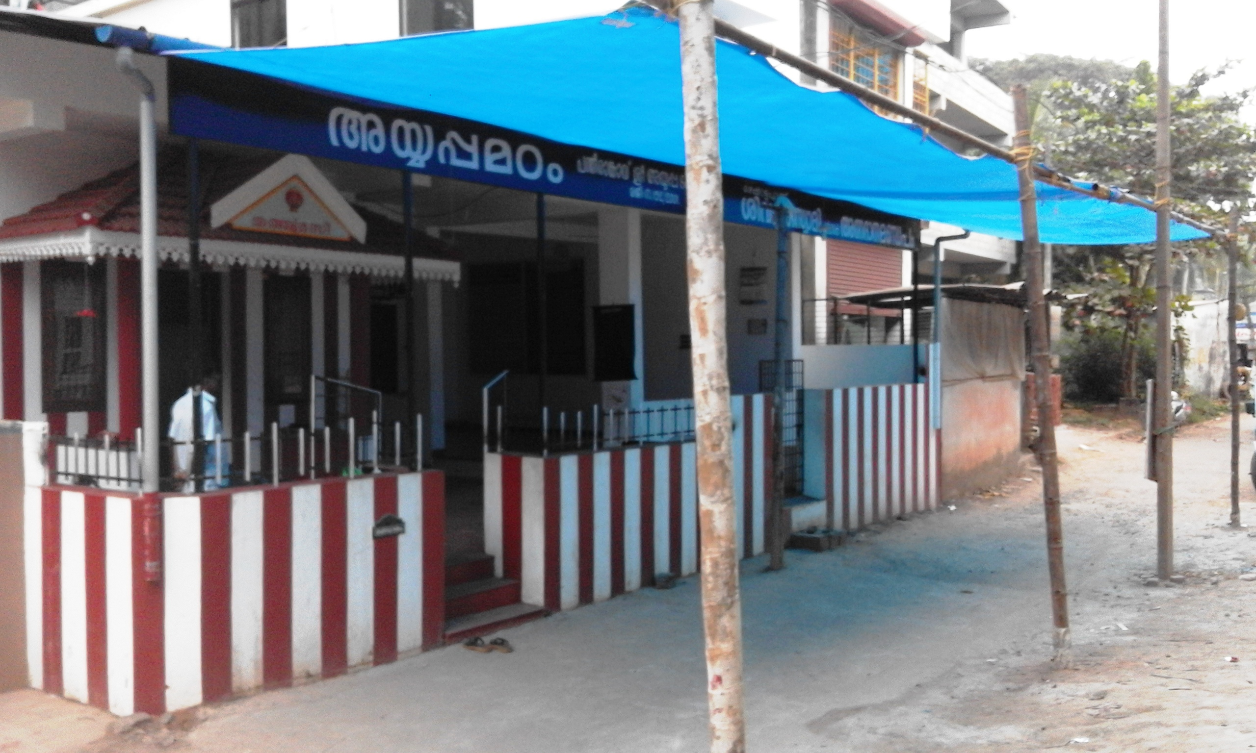 Pantheerankavu, Kozhikode , India.